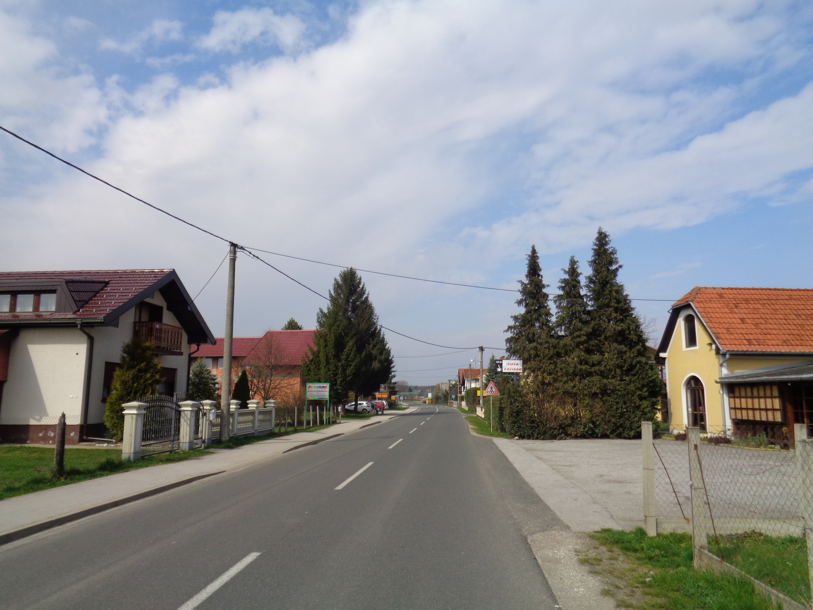 Dunjkovec village, Nedelišće municipality, Medjimurje County, Croatia - village centre